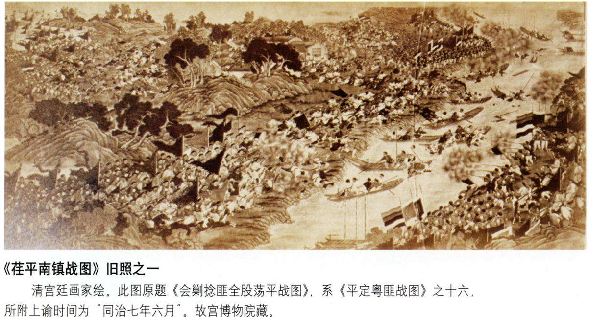 A battle of the Nien Rebellion (1851–1868). From "Victory over the Nian", a set of eighteen paintings.